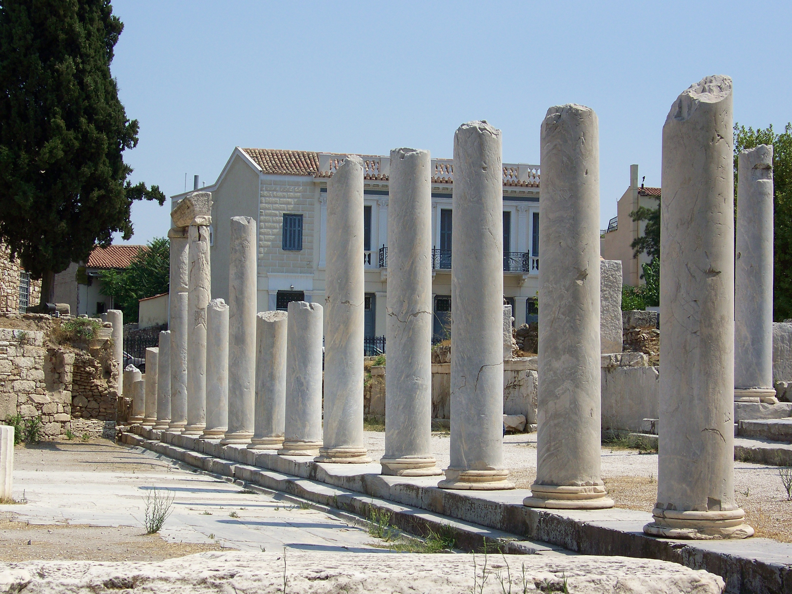 Columns of the ancient Roman forum in Athens, Greece.